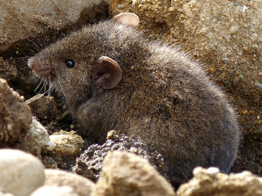 Abrothrix sanborni in Chonchi, Los Lagos Region, Chile